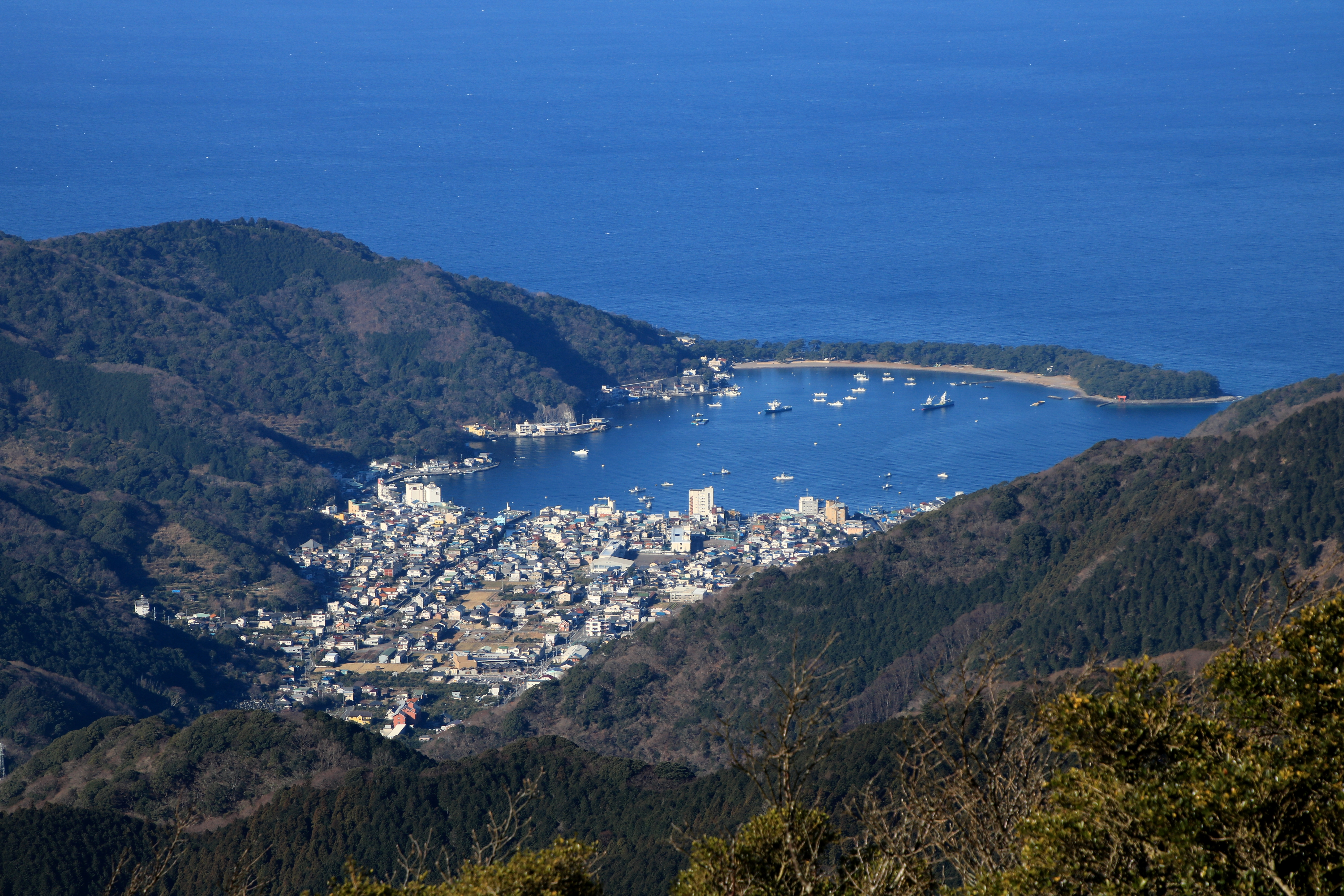 Cape Mihama and Port of Heda seen from Mount Kinakan in Numazu, Shizuoka prefecture, Japan. Canon EOS Kiss X8i